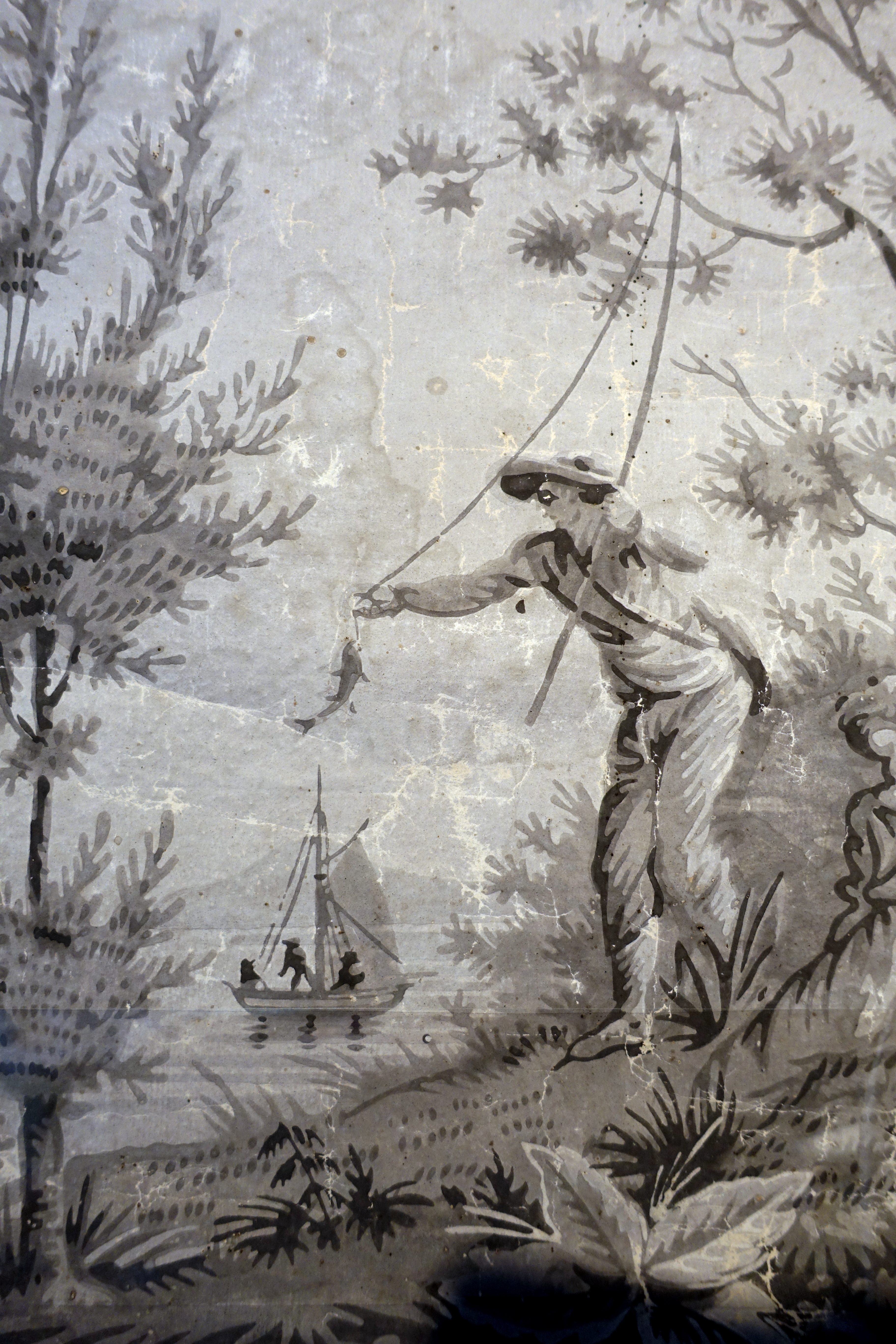 Exhibit in the Concord Museum, Concord, Massachusetts, USA.